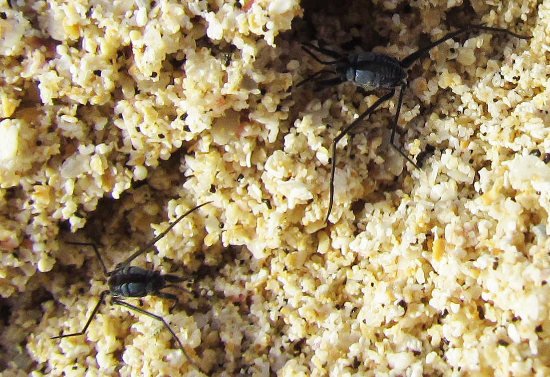 Halobates sp. (Heteroptera Gerridae) Castle Beach, Kailua (Oahu), Hawaii.